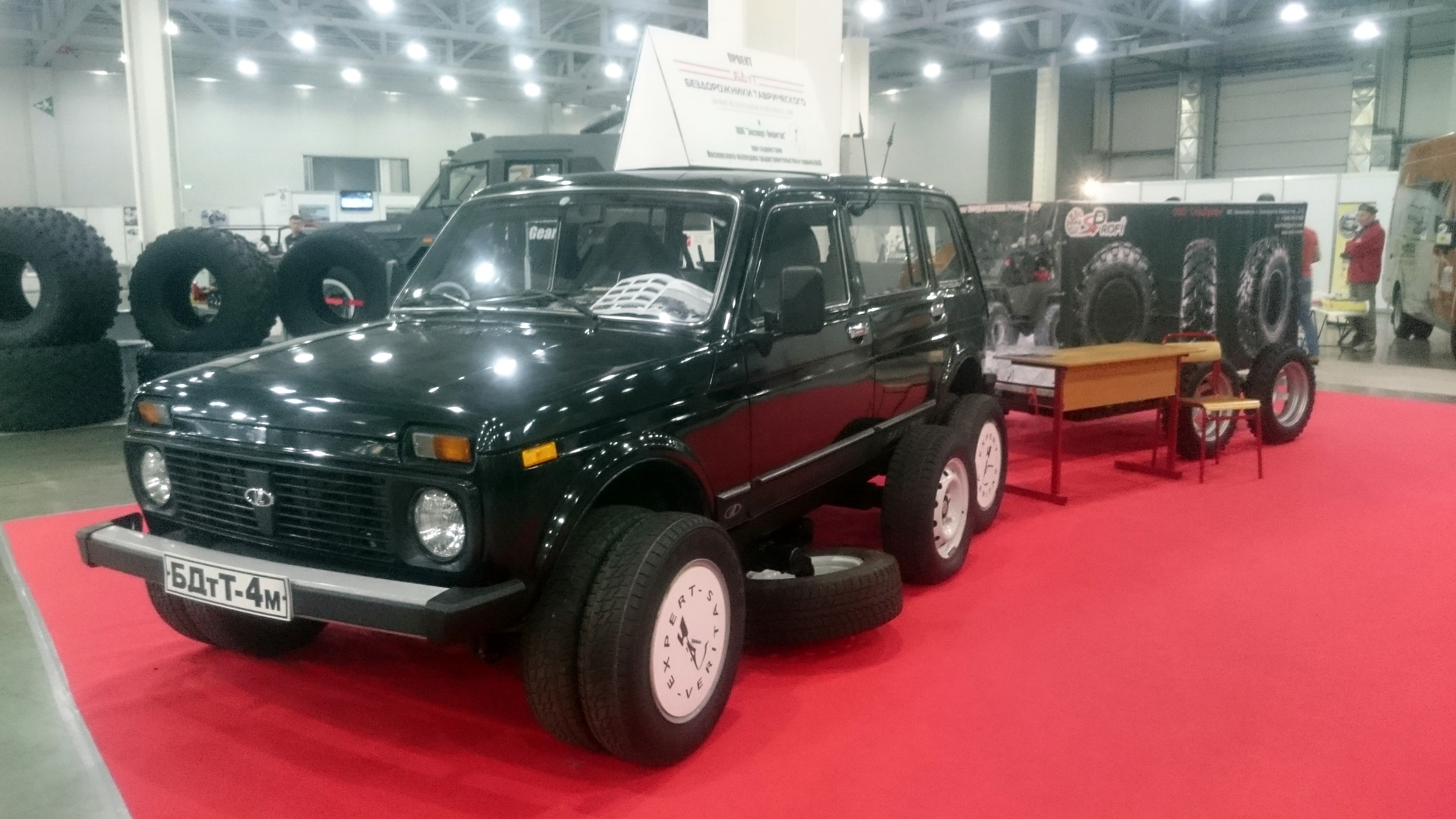 Moscow International Automobile Salon 2016.